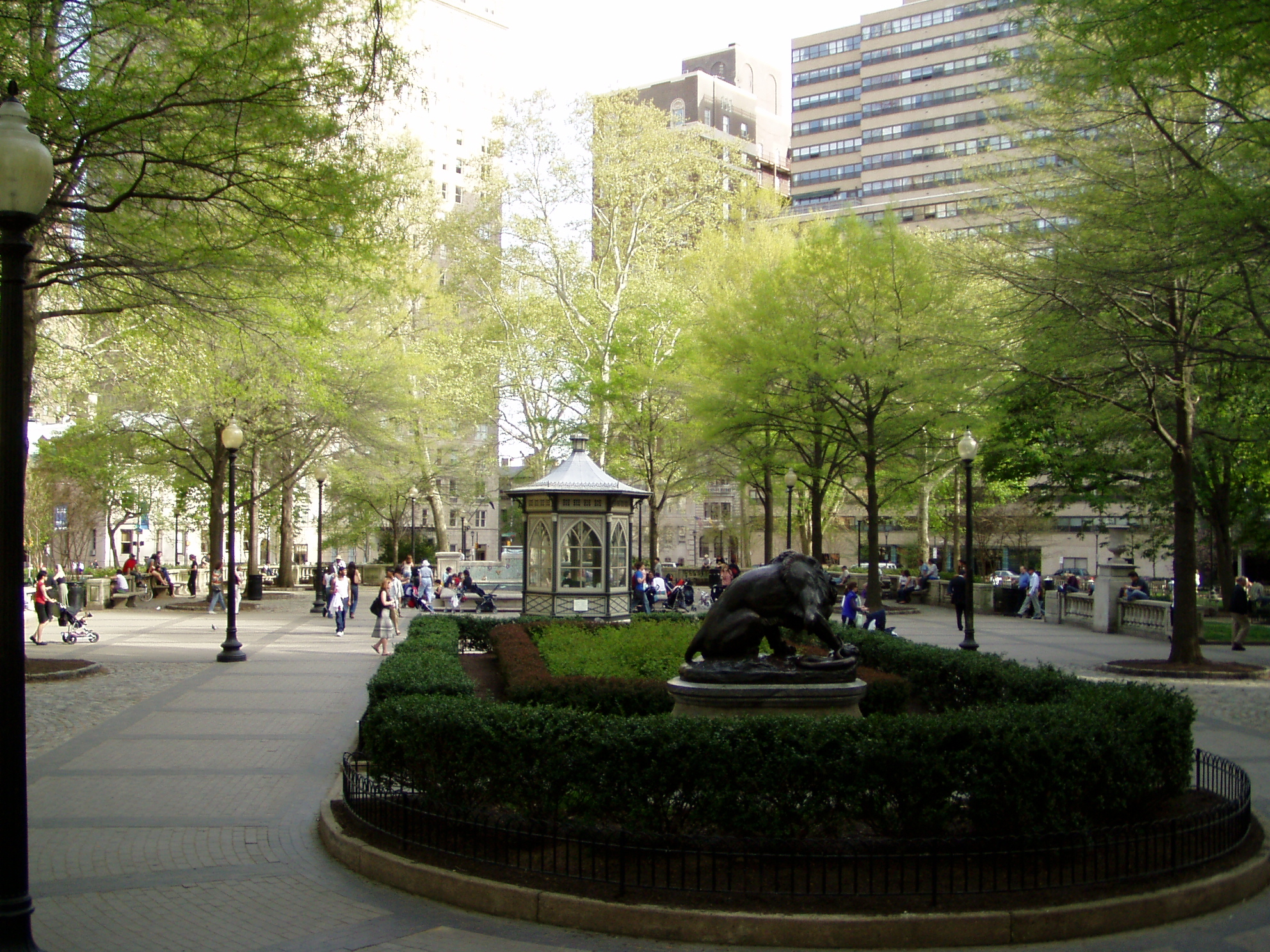 Taken in Philadelphia, Pennsylvania, in April 2006. A springtime scene in the center of Rittenhouse Square.